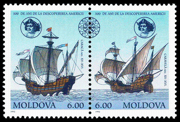 Stamp of Moldova